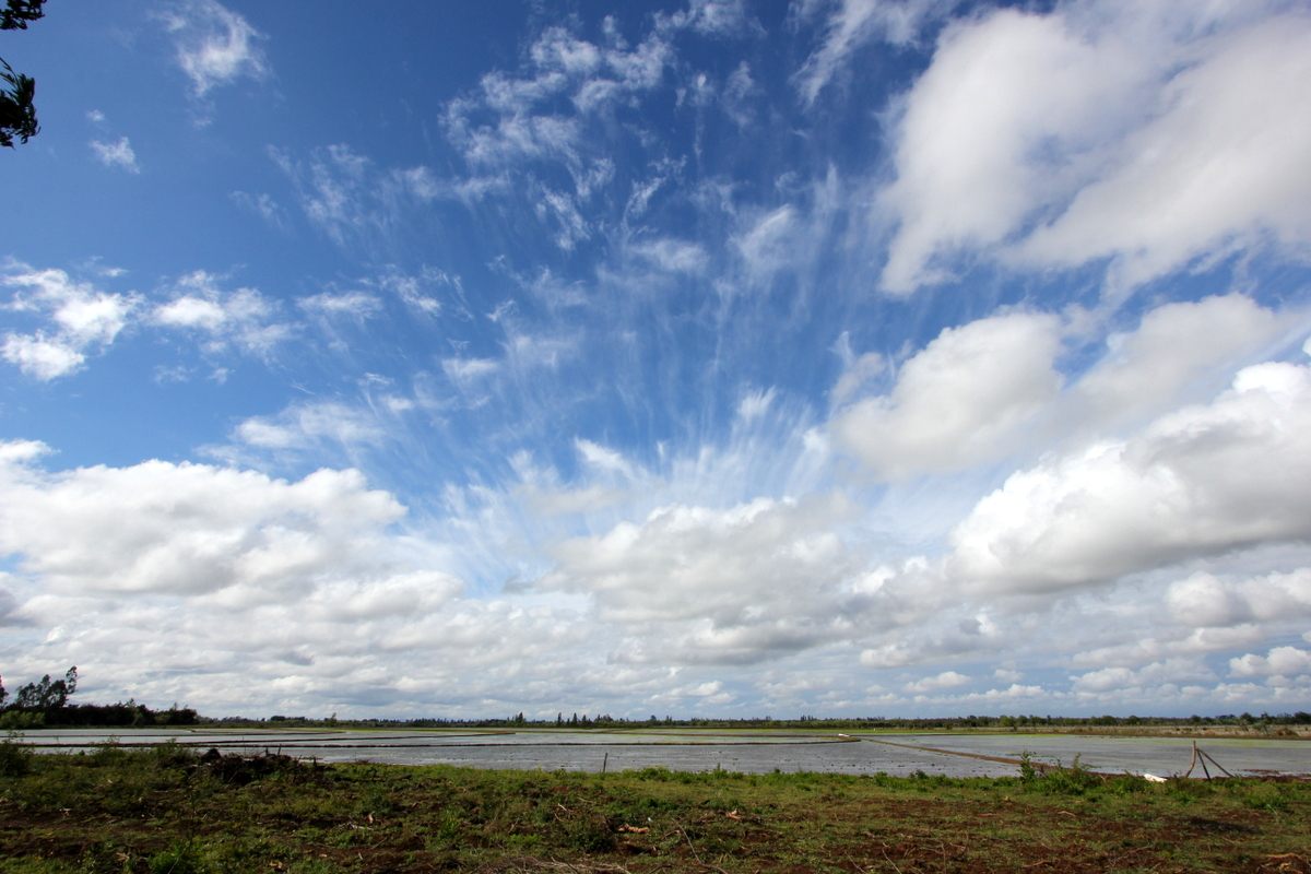 typical rice field in Parral region